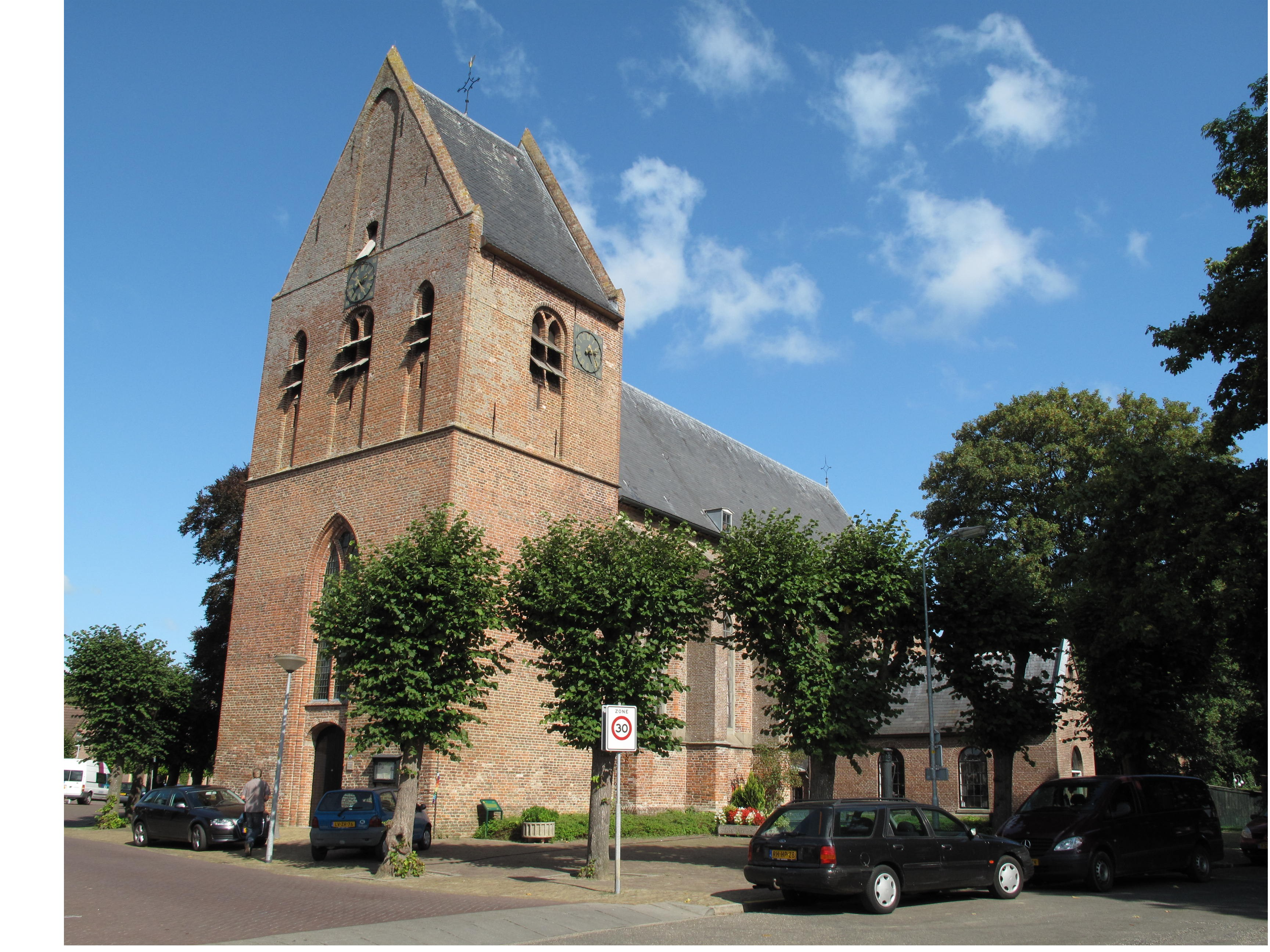 Terwolde, church